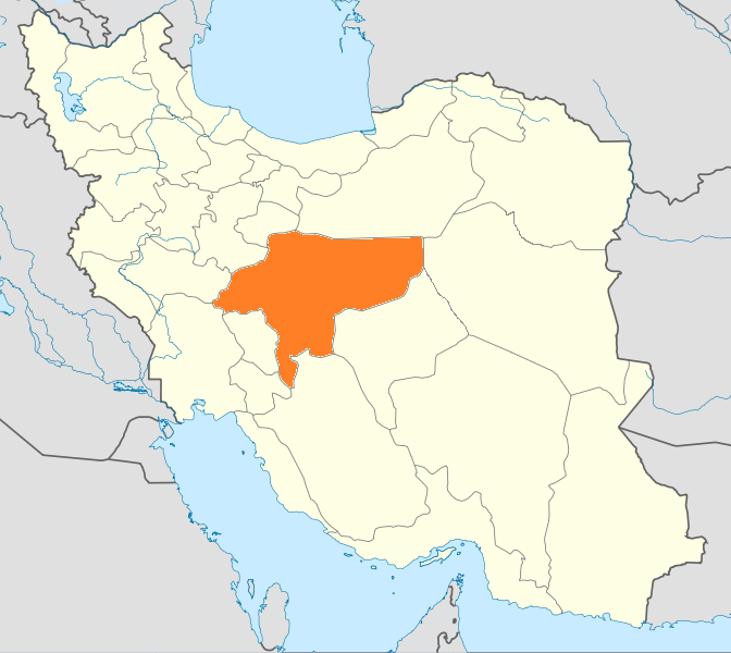 Locator map of Iran